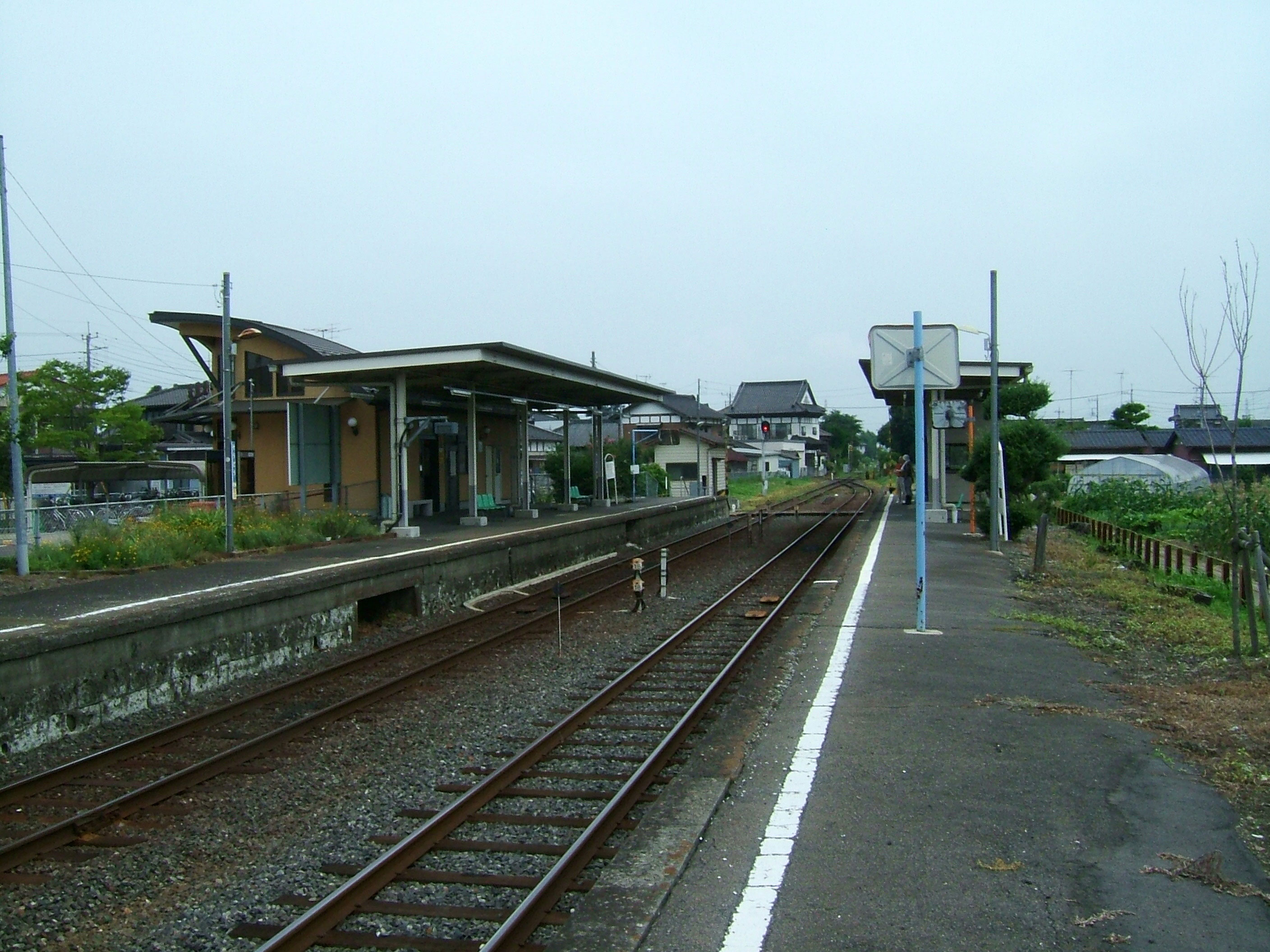 Sōdō Station platform (Kanto Railway Jōsō Line)